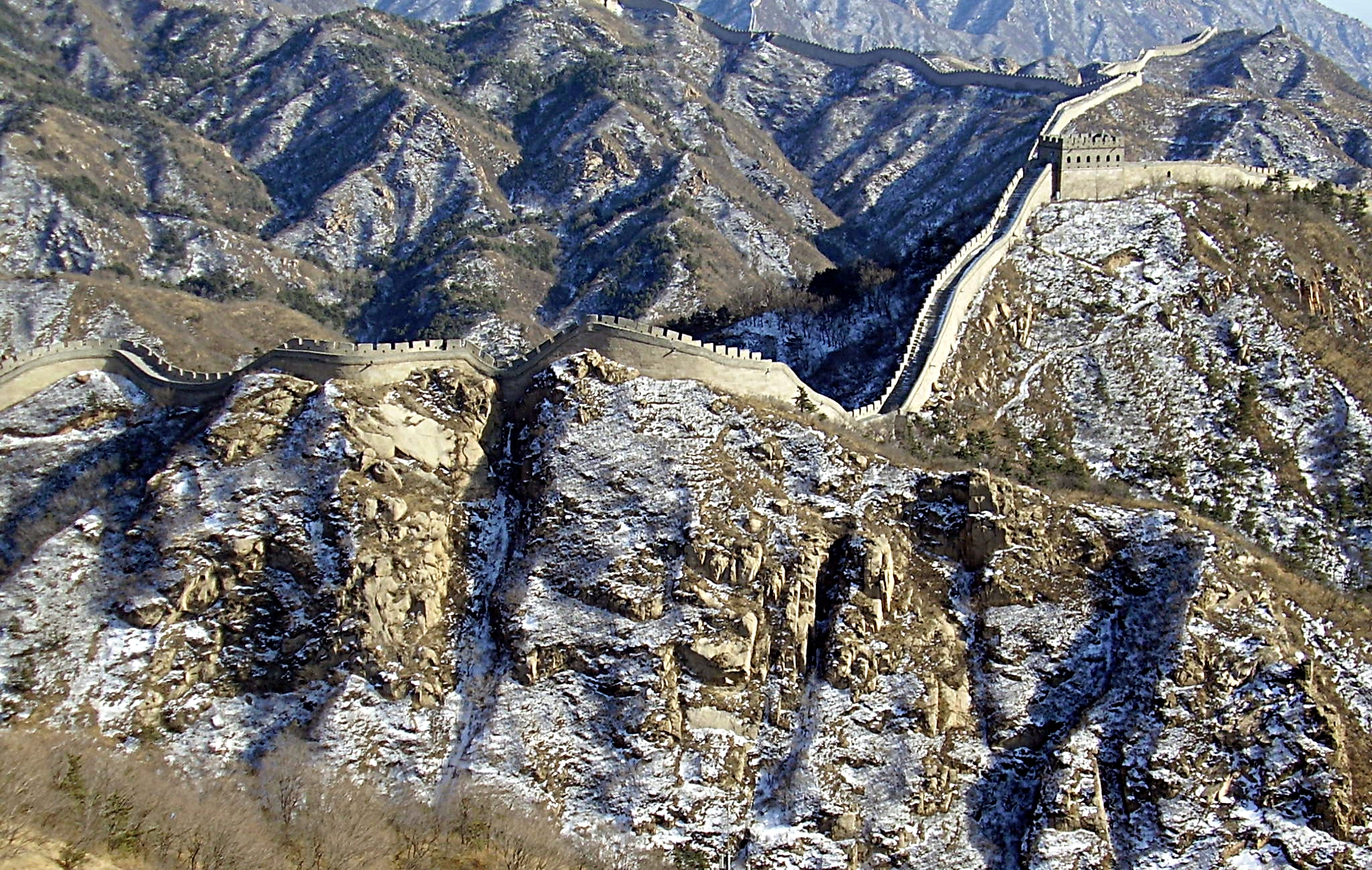 Great Wall near Beijing in Winter. Photo was taken using the following technique: Body: Olympus C-370 Zoom